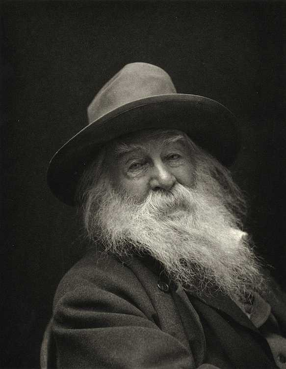 The Laughing Philosopher: American poet Walt Whitman (1819–92)[1] This image was made in 1887 in New York, by photographer George C. Cox. The image is said to have been Whitman's favorite from the photo-session; Cox published about seven images for Whitman, who so admired this image that he even sent a copy to the poet Tennyson in England. Whitman sold the other copies.[2] Currently vended commercially, in a format suitable for magazine & book reproduction, by picture library Corbis. The image was apparently originally in the collection of Charles E. Feinberg, and then entered the collection of the New York Museum of Modern Art under curator John Szarkowski.